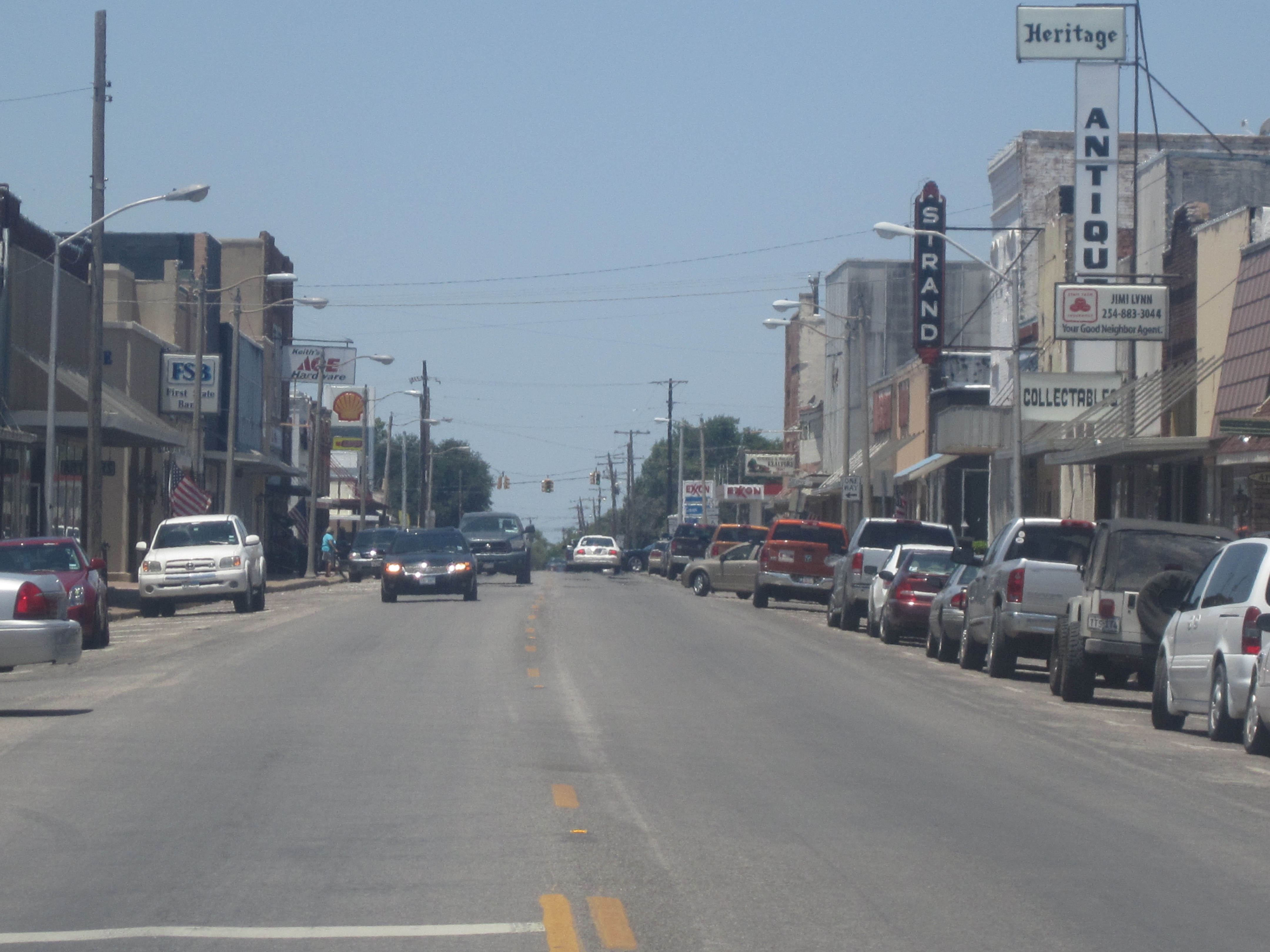 Marlin, Texas: 100 block Live Oak Street (Texas State Route 7) facing west